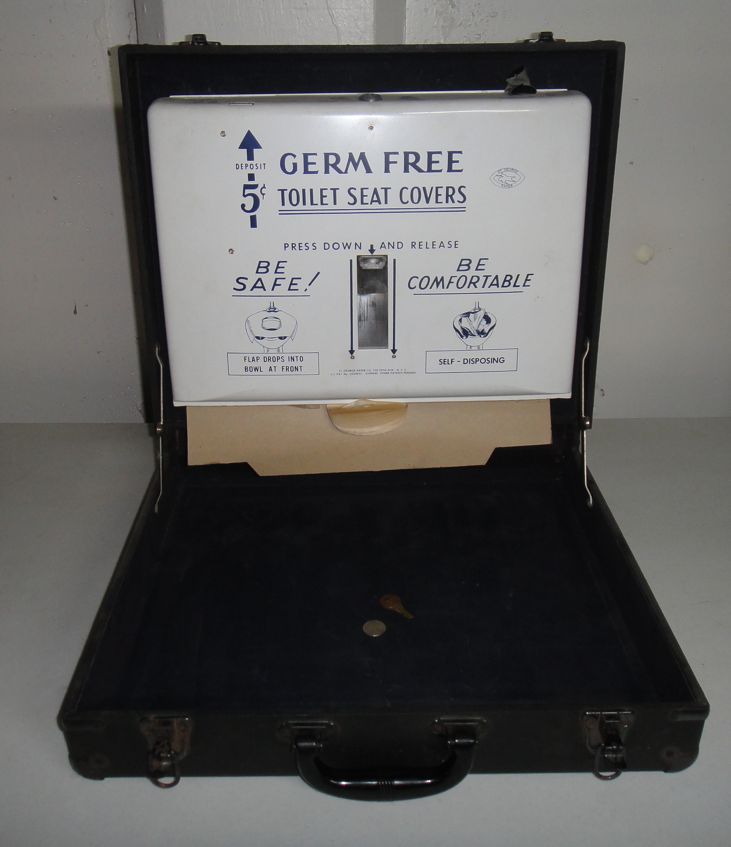 Early example of the toilet seat cover. This was patented in 1942-1943 by inventor, J.C. Thomasa. Patent No. 2,299,940 and Patent No. 2,320,955. This is a traveling salesman's sample in a carrying case. This item is on display at the DFW Elite Museum of Haltom City, Texas.